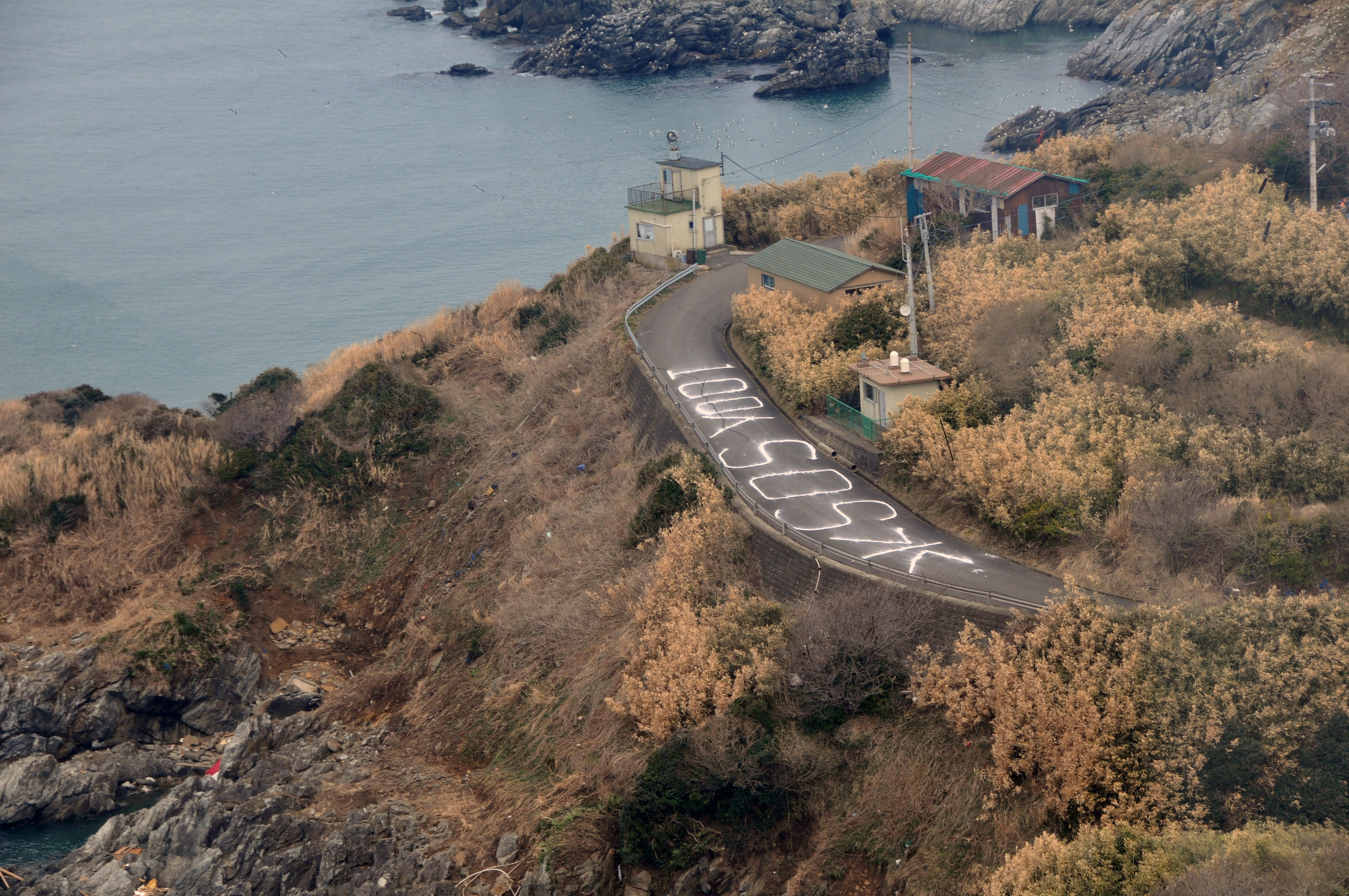 U.S. Air Force search and rescue personnel observe a universal distress sign on a coastal roadway in Enoshima Island, Onagawa, Miyagi Pref., Japan, March 14, 2011. The team, aboard a U.S. Air Force HH-60G helicopter, is part of the American disaster relief forces assisting with Japan's earthquake and tsunami recovery effort. (U.S. Air Force photo by Airman 1st Class Katrina R. Menchaca)